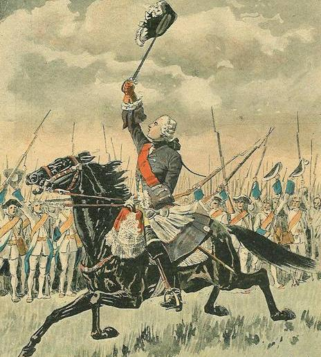 The Chevalier de Lévis rallies the French army before the Battle of Sainte-Foy. Online at Canadian Military Heritage, Department of Defence. Vertical crop for better fit in battlebox.